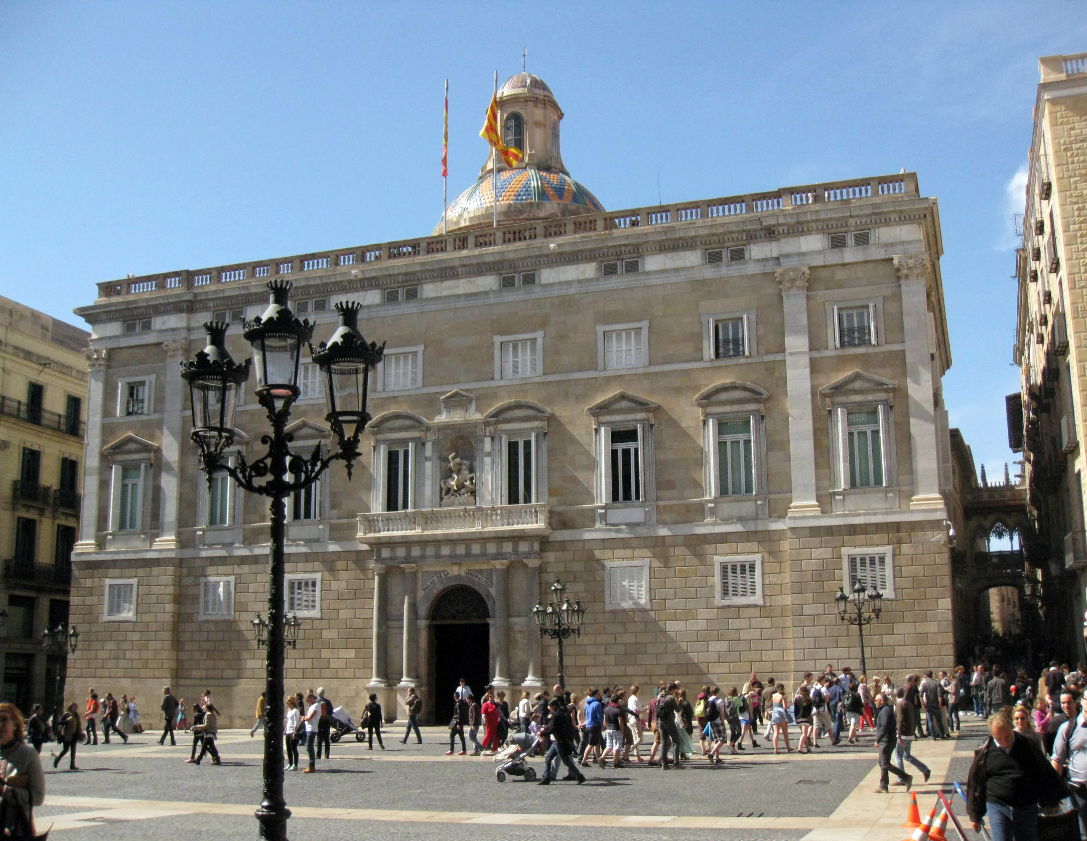 Palau de la Generalitat de Catalunya (Barcelona).